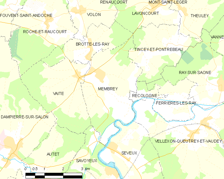 Map of French municipality